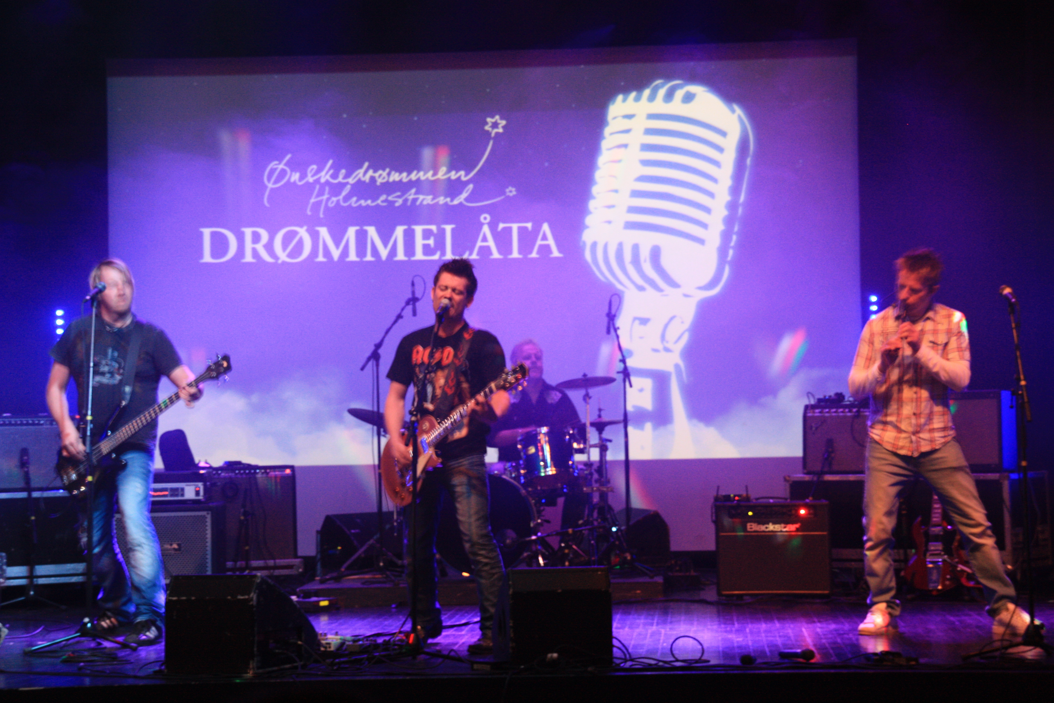 Plumbo (band) performing their song "Drømmeland" during the Drømmelåta competition in coherense with TV2's program Ønskedrømmen, in Biorama, Holmestrand